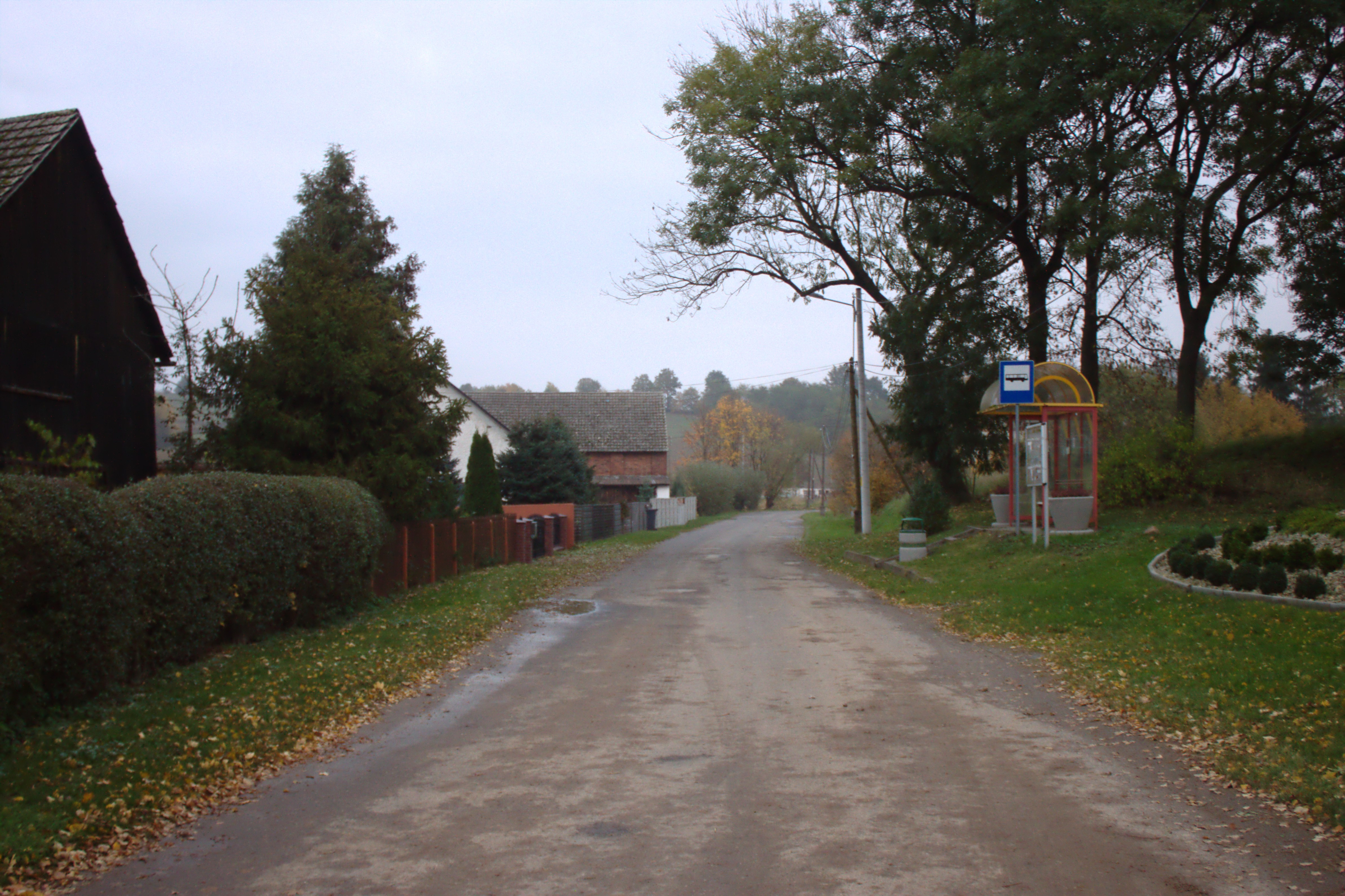 A bus stop in the village of Jakubowice, Poland